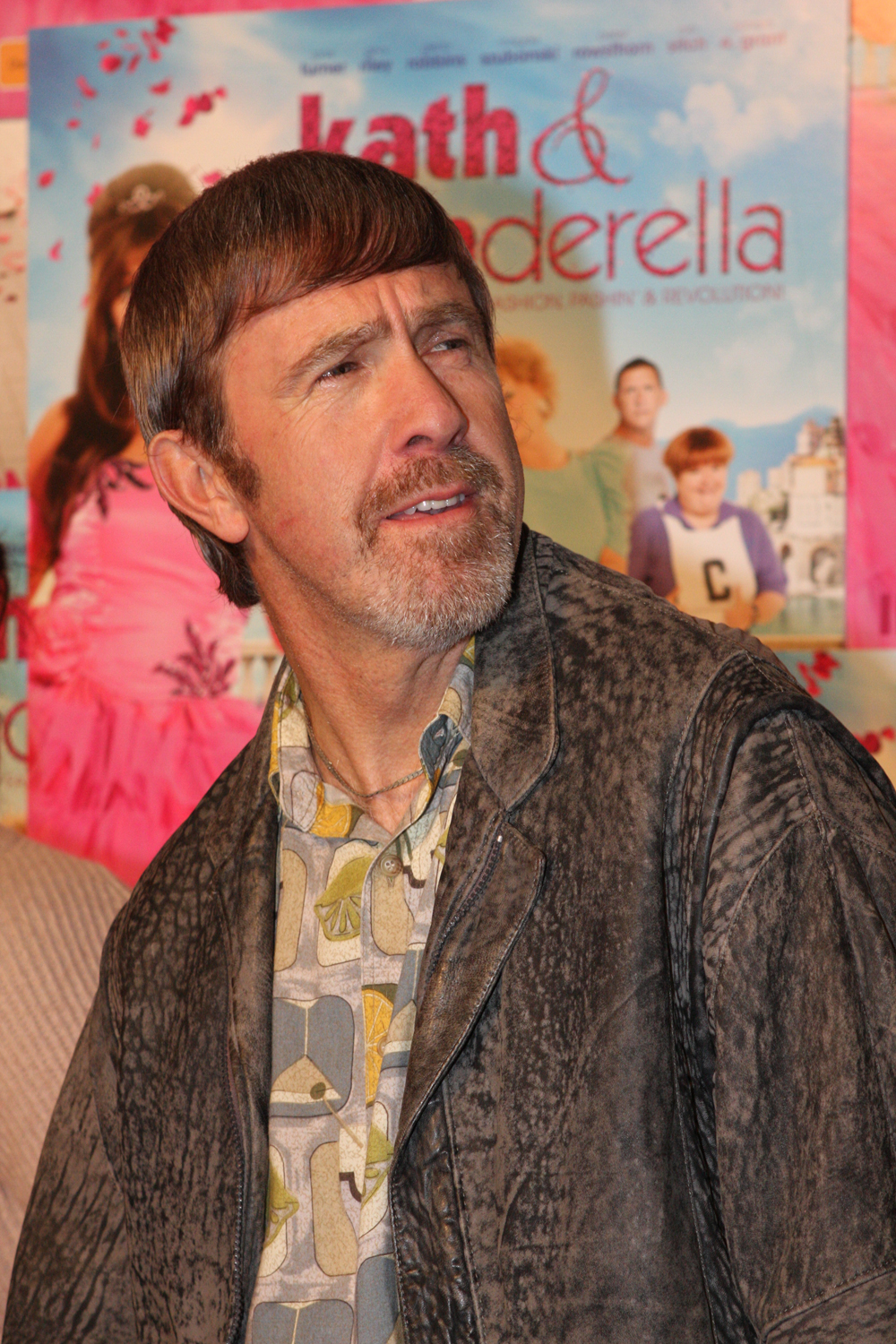 Kath & Kimderella movie premiere at Entertainment Quarter; Sydney, Australia Tonight the Australian "foxy moron" (Kath & Kim lingo) film enjoyed its Australian premiere at Entertainment Quarter in the shadow of Fox Studios Australia, Moore Park. The Kath & Kim franchise is well established and its usually a case of you either love them or hate them. Tonight there were hundreds of lovers of course. Some passionate fans dressed up as their idols - including some grown men in K&K drag. The girls at the premiere switched in and out of character, as they often do in news media interviews. The Flick... Kath, Kim and the latter's daggy offsider, Sharon (Magda Szubanski) are soon shipped off to Papilloma, a bankrupt principality in Italy, where the monarch, King Javier (Rob Sitch) mistakes Kath for a wealthy noble and plans to seduce her, while his son fixates on Kim as a princess. Plot... Fountain Lakes’ foxiest ladies turn more than just heads when they go on an OS trip and end up being the centre of their very own fairytale. Starring: Jane Turner, Gina Riley, Magda Szubanski, Glenn Robbins & Peter Rowsthorn. Director: Ted Emery Kath & Kimderella opens nationally Thursday, September 6. Websites Kath & Kimderella official website Kath & Kim official website Roadshow Films Eva Rinaldi Photography Flickr Eva Rinaldi Photography Music News Australia